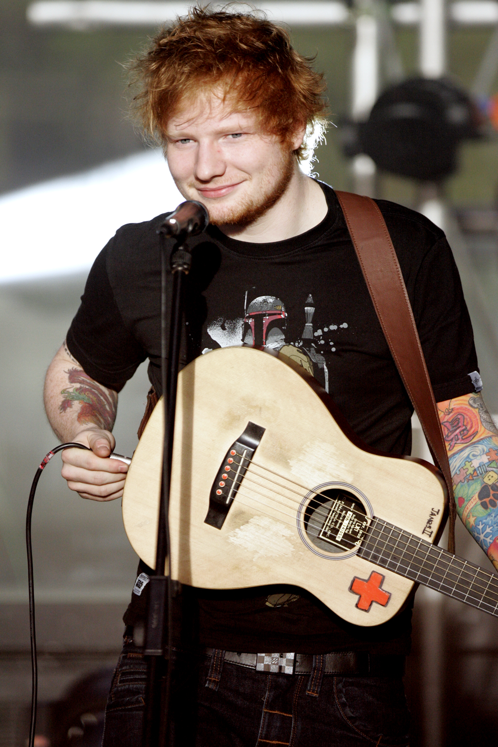 Ed Sheeran